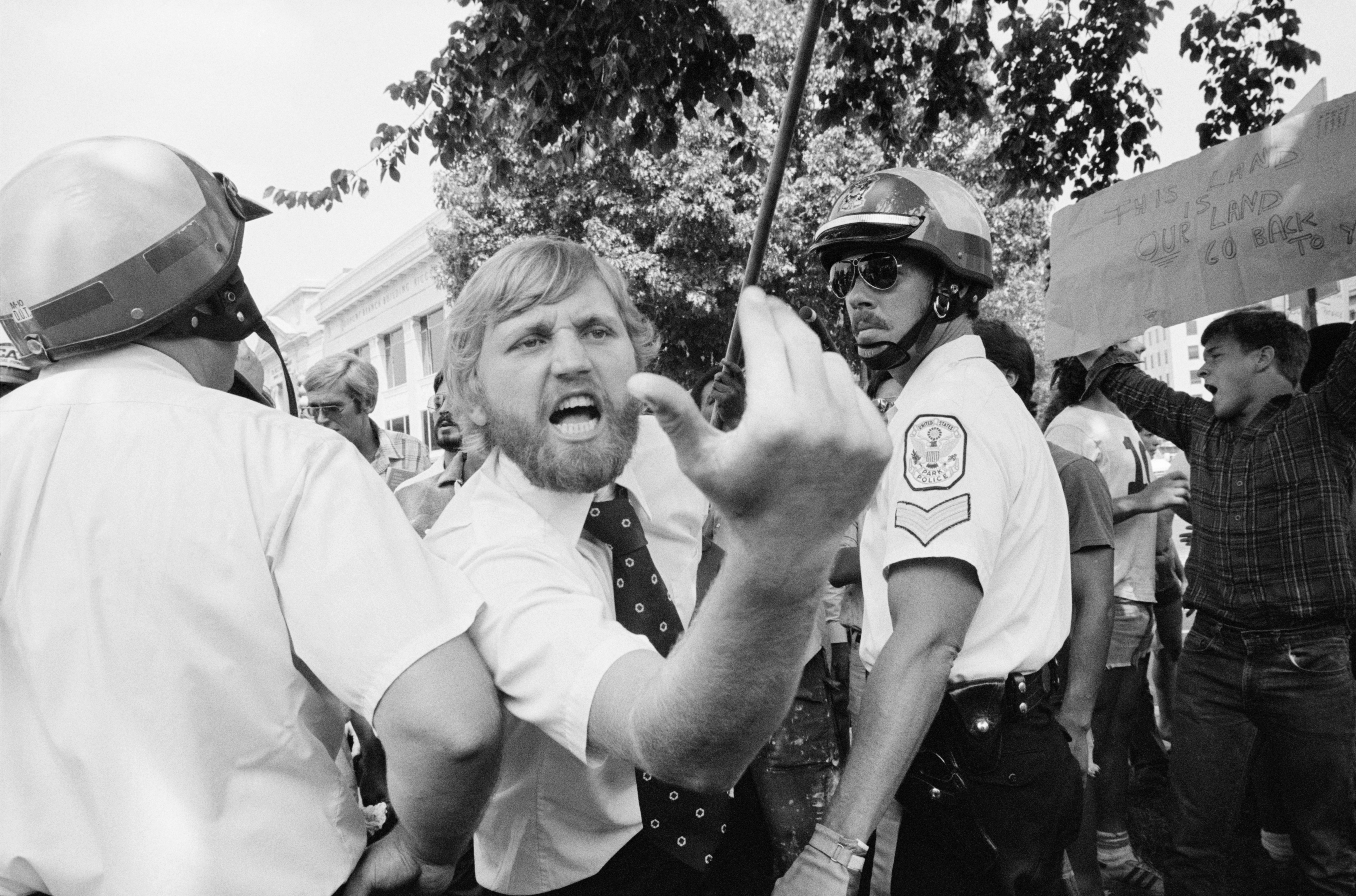 "Man heckles Iranians demonstrating for Khomeini at police line in Washington, D.C." Cropped. Dirt and scratches removed. Histogram adjusted.